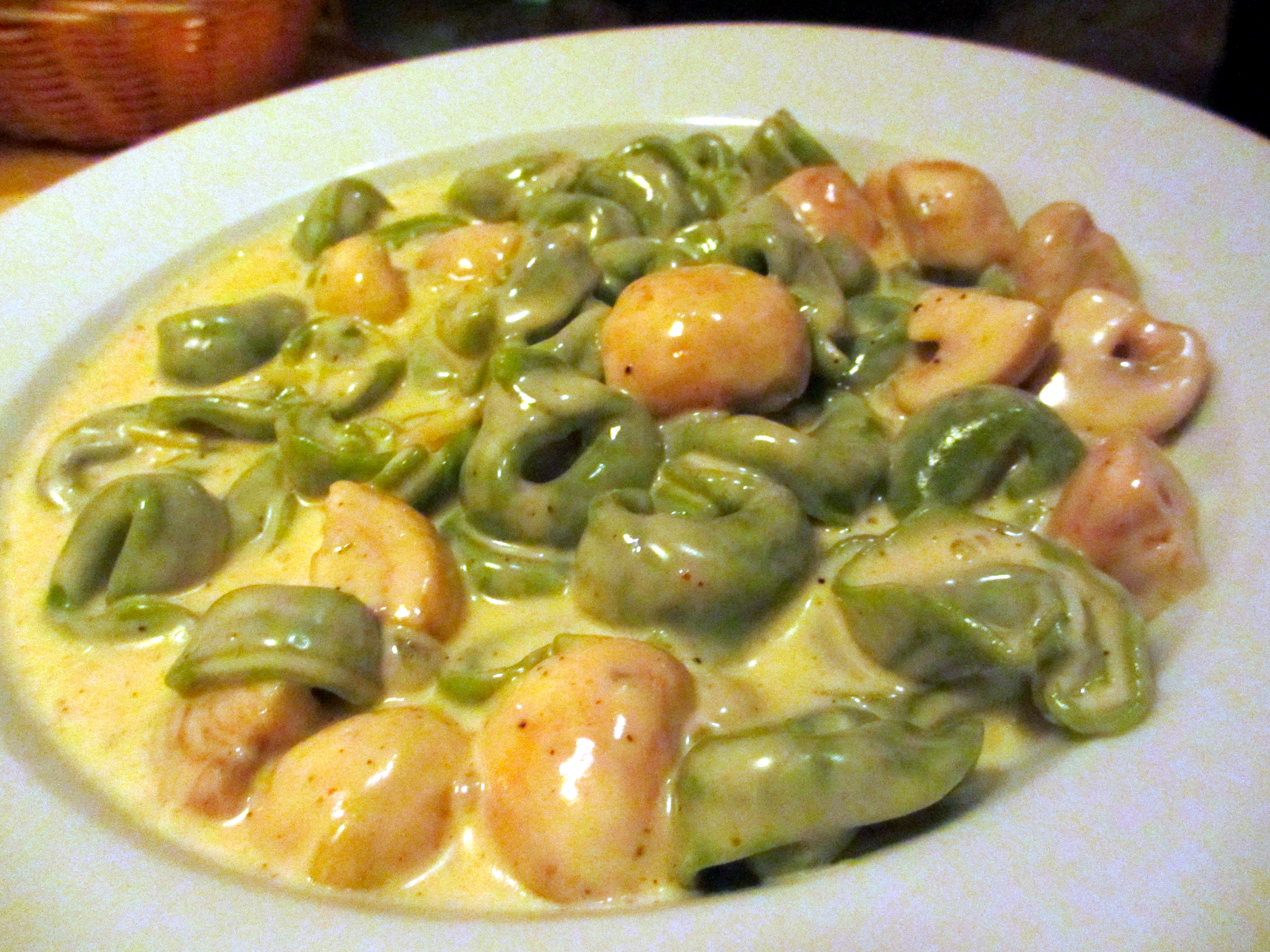 Some sort of pasta